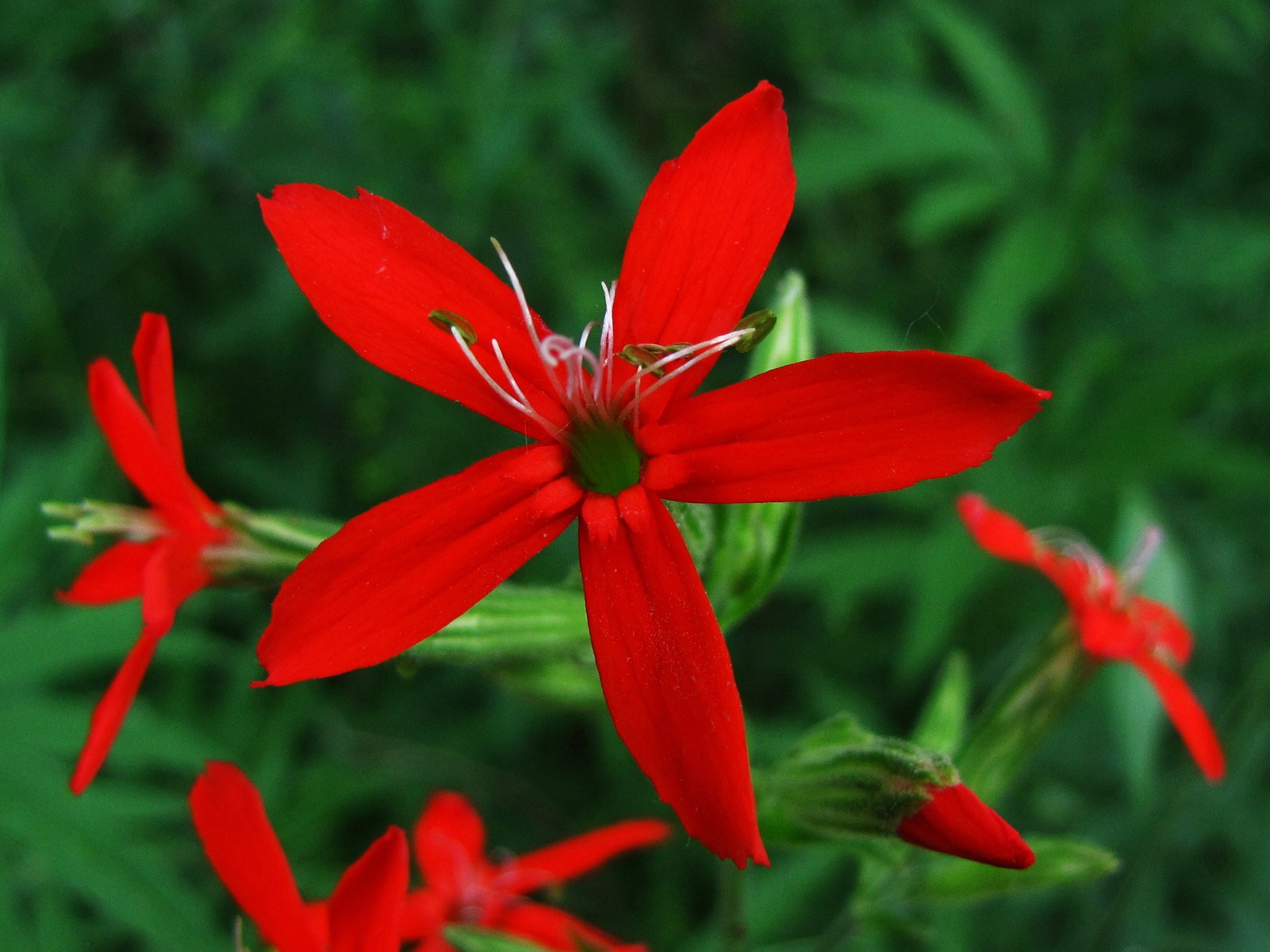 Port Louisa National Wildlife Refuge, IA Photo: Alex Galt, USFWS